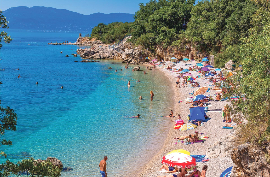 Kostrena Beach